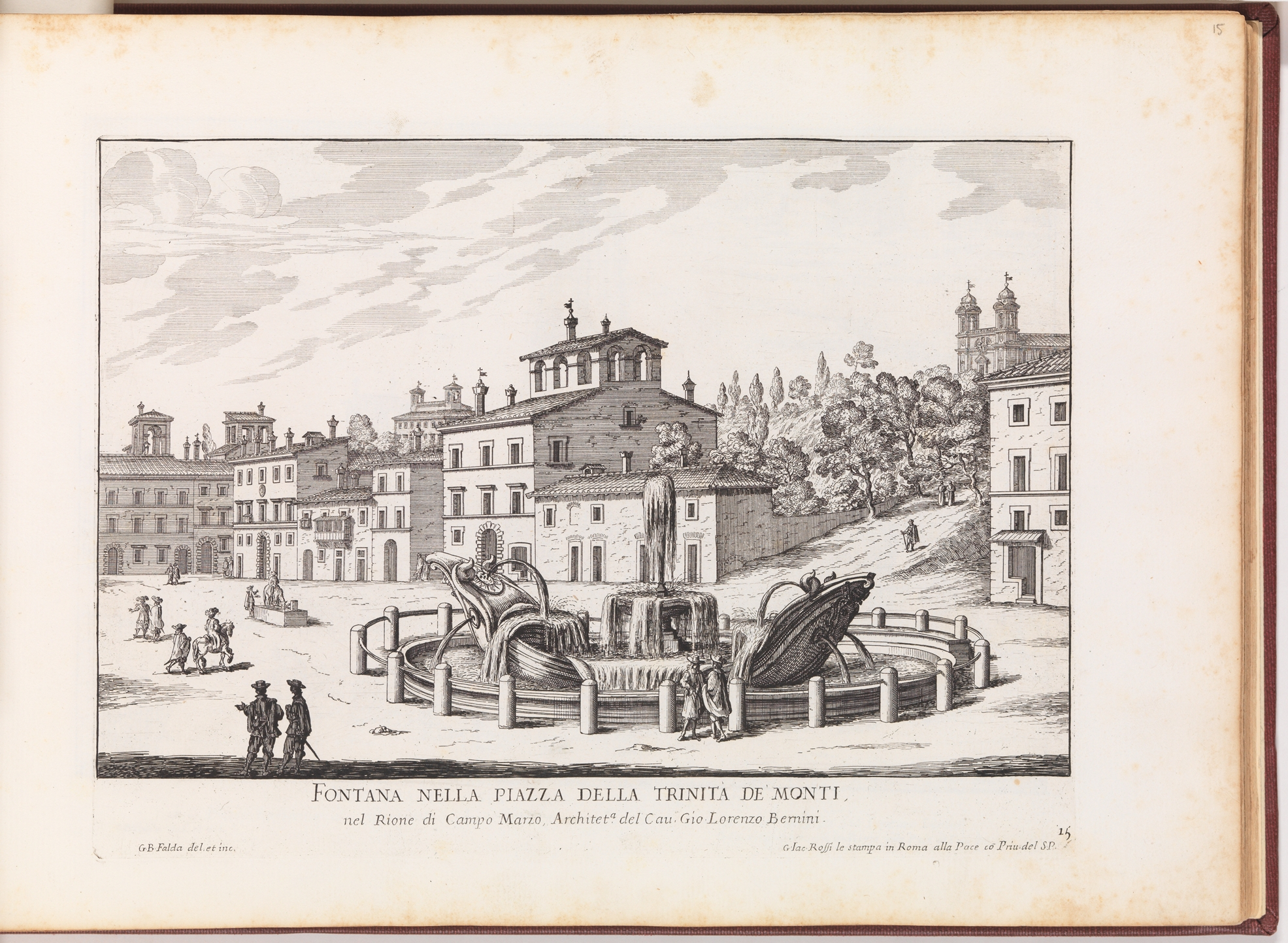 Collection Ornament & Architecture; Prints